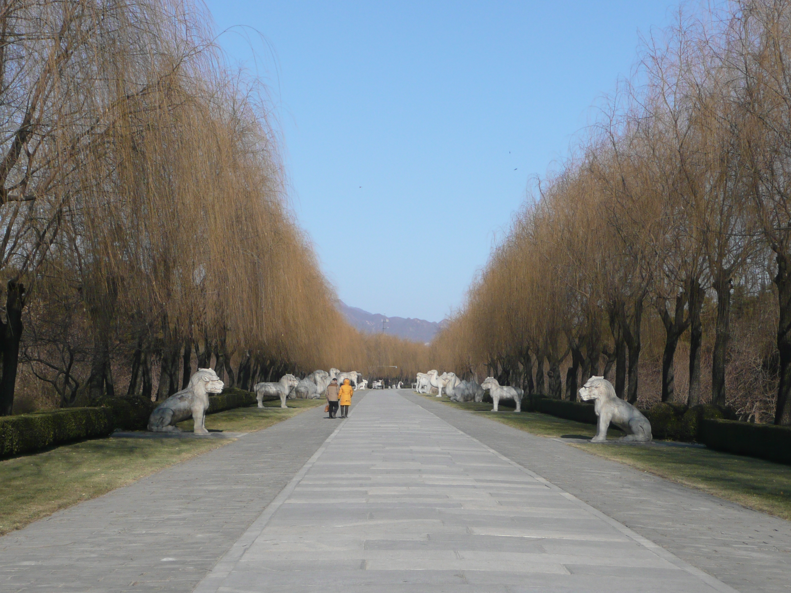 The spirit walk in the Ming Dynasty Tombs in Beijing.